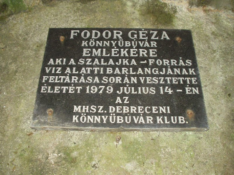 Commemorative plaque of Géza Fodor at the entrance of Cave of Szalajka Spring (Bükk Mountains, Szalajka Valley)